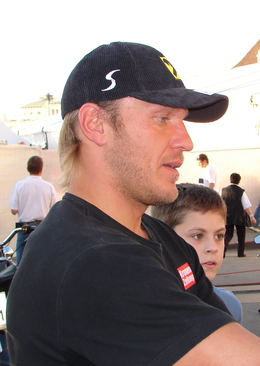 Hermann Maier, "Day of Sports" Festival 2006, Heldenplatz Vienna, cut picture